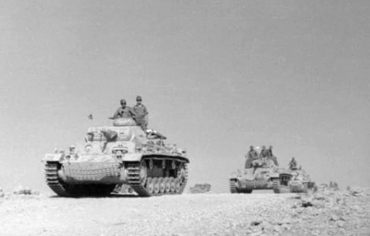 A column of Panzer III tanks and other military vehicles advance up a desert road in North Africa in March-May 1941